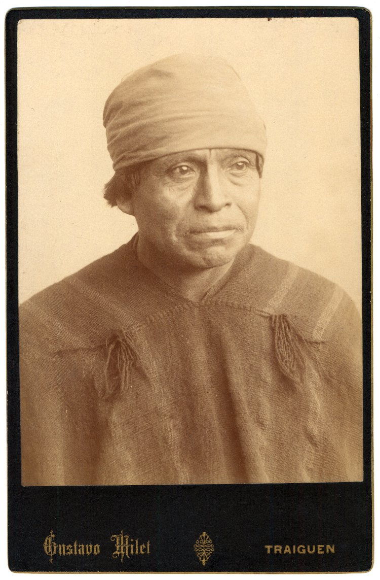 Photograph (black and white); cabinet card a head and shoulders portrait of a Lonko (male Mapuche leader) or Cacique from Lloncon, wearing a trarilonko (headband) and manta (blanket/poncho); Traiguen, Chile.